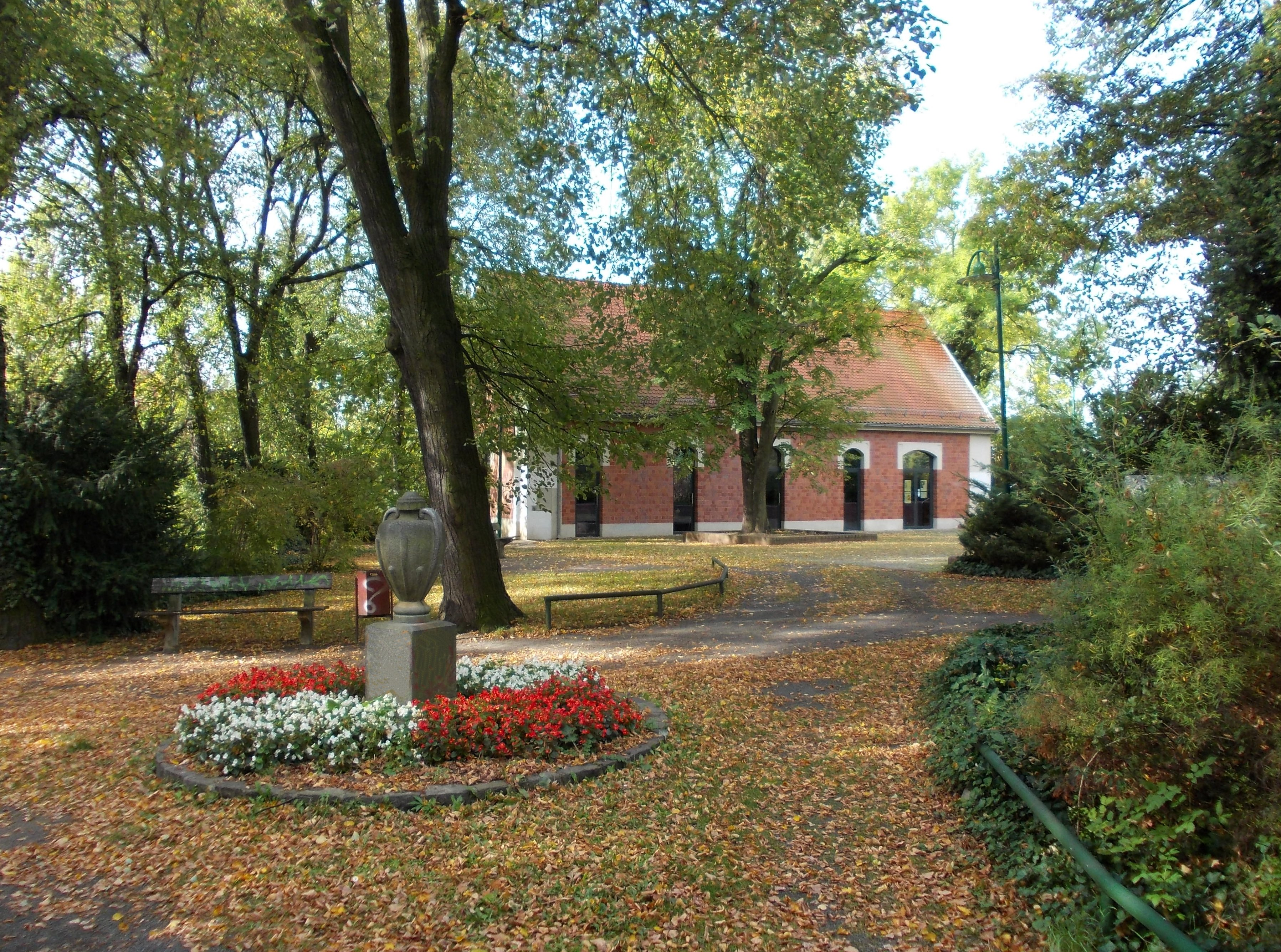 Art Kapella at the old cemetery in Schkeuditz (Nordsachsen district, Saxony)